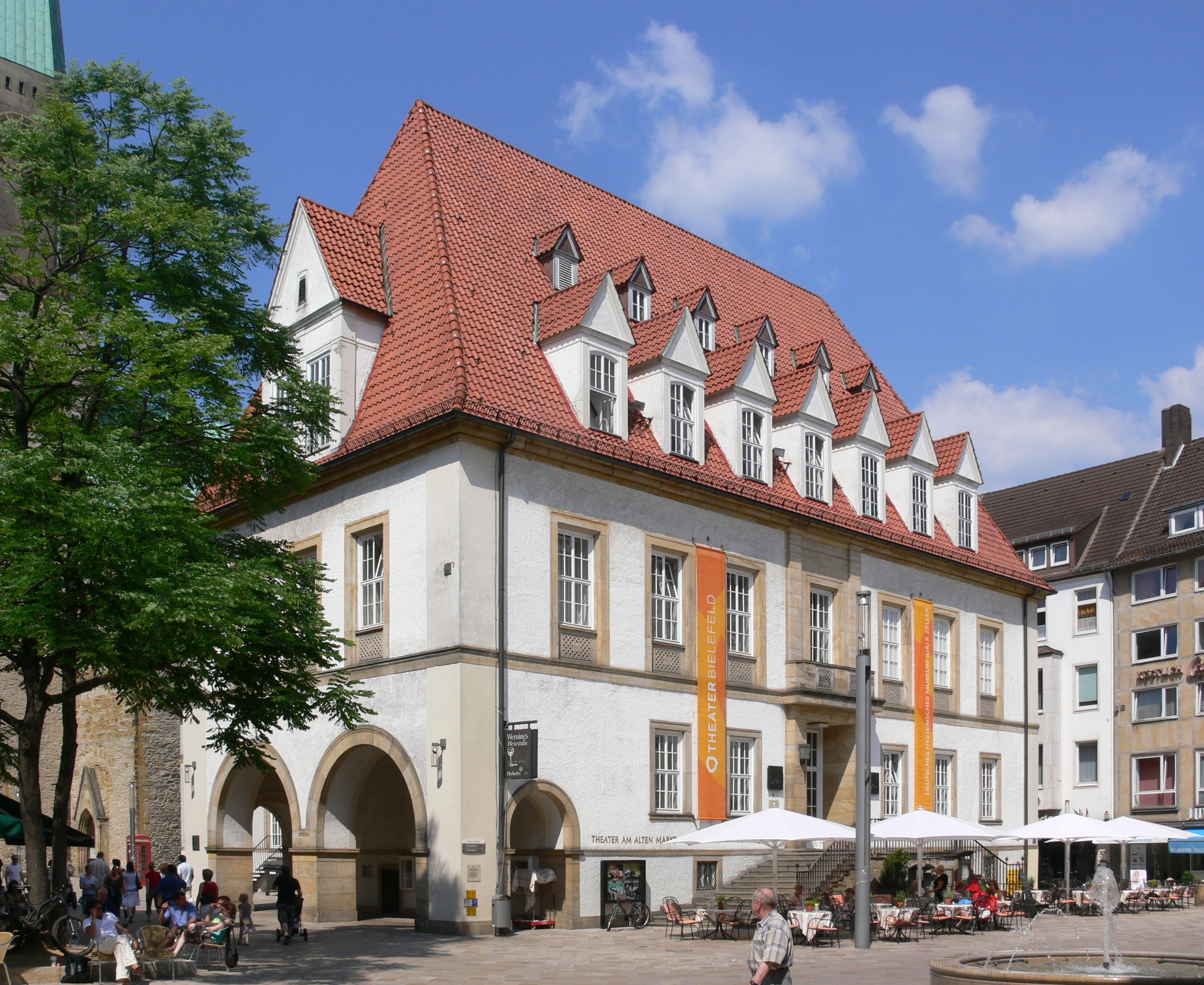 TAM (Theater am Alten Markt), the second stage of the Theater Bielefeld company